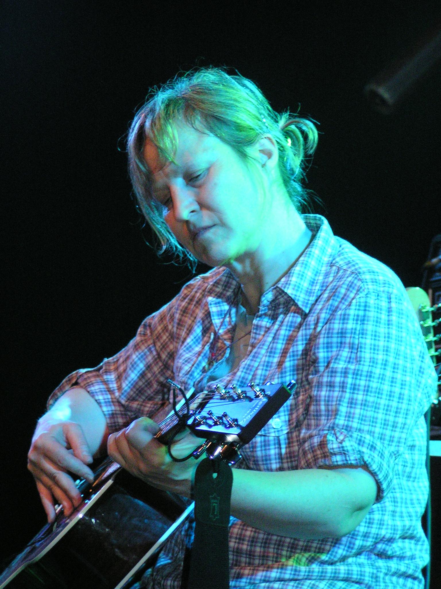 Yo La Tengo, playing live in the Barby club in Tel-Aviv. The Popular Songs tour. March 22, 2010. Georgia Hubley